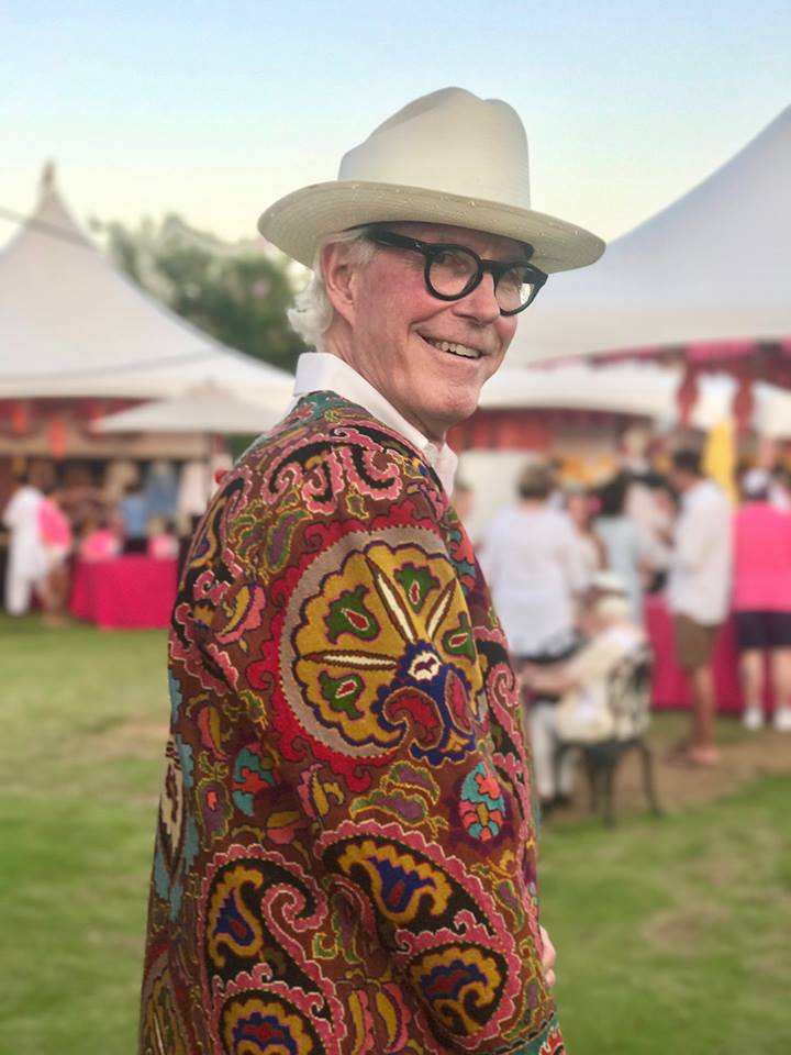 International Folk Art Festival in Arlington, Texas